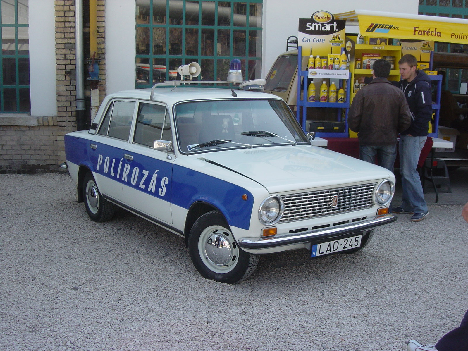 lada 2101 with the inscription "polishing" (polirozas)